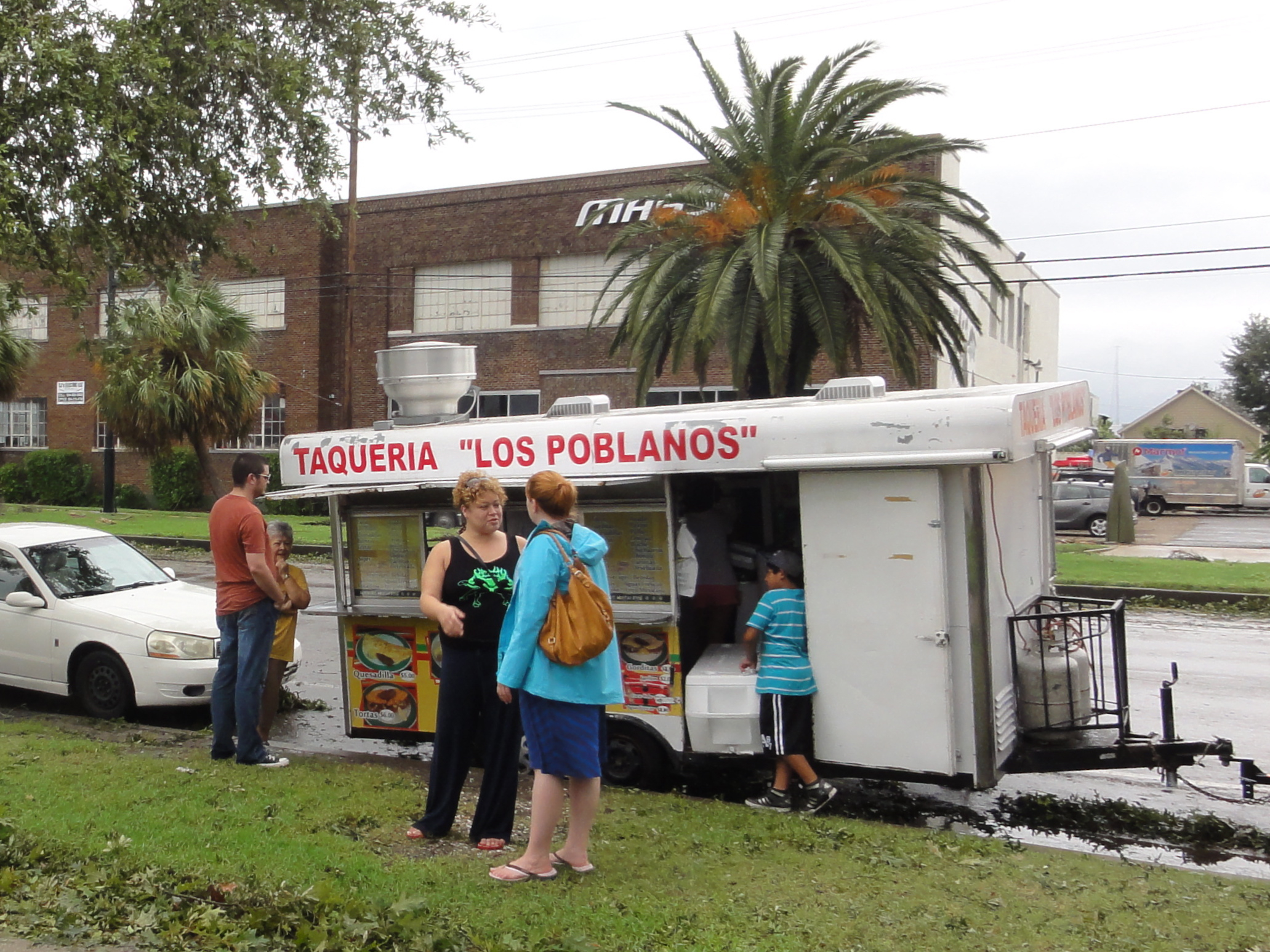 New Orleans after Hurricane Isaac. Taco wagon in one of the many sections of the city without electricity for days. This truck was one of the first restaurants to reopen in Mid-City.